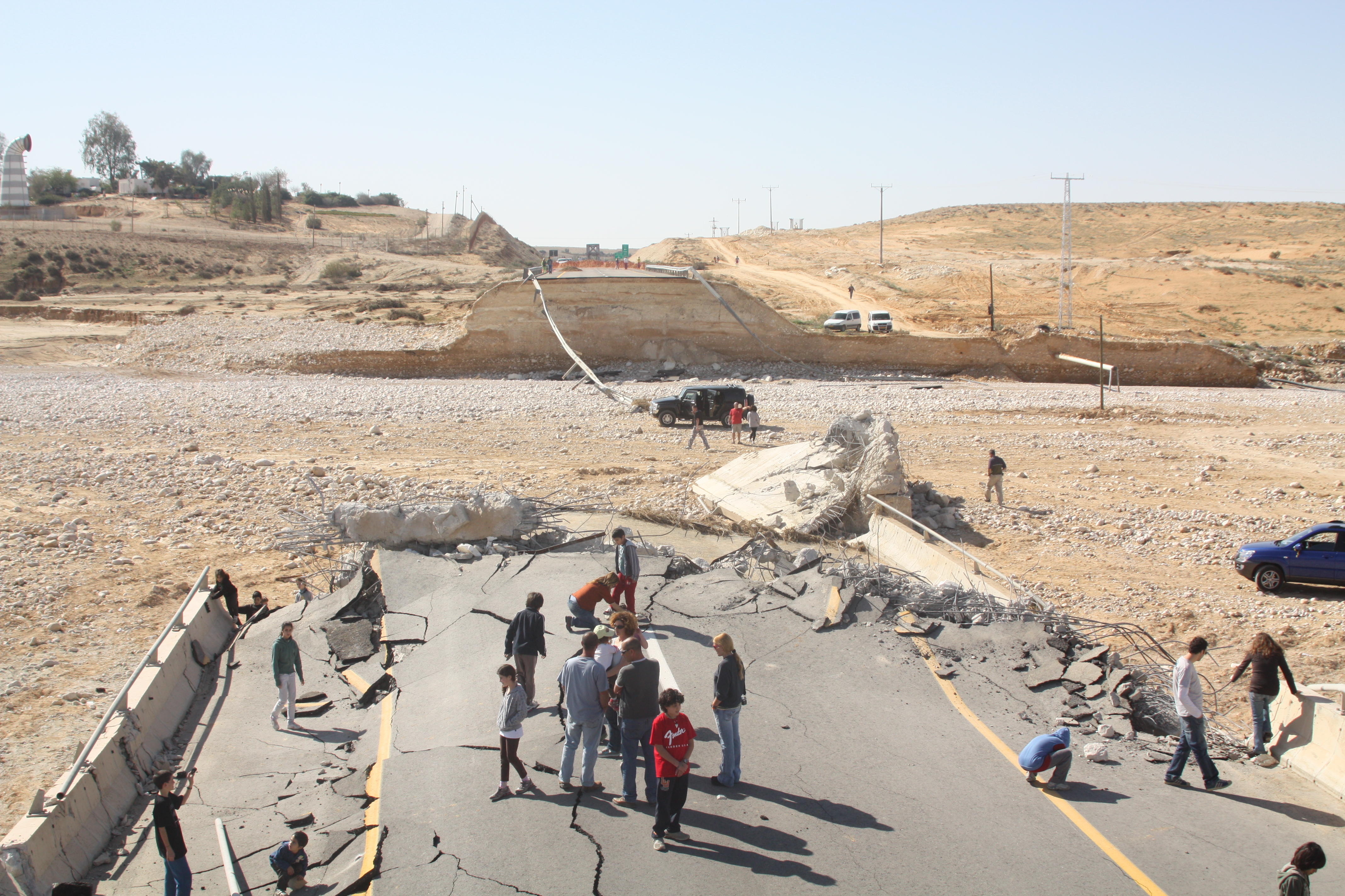 Bridge over Nitzana Stream that was washed away by floods of January 2010.